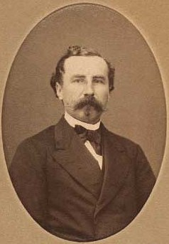 Ove Güldencrone (1840-1880), Danish Baron, naval officer of Denmark and Greece